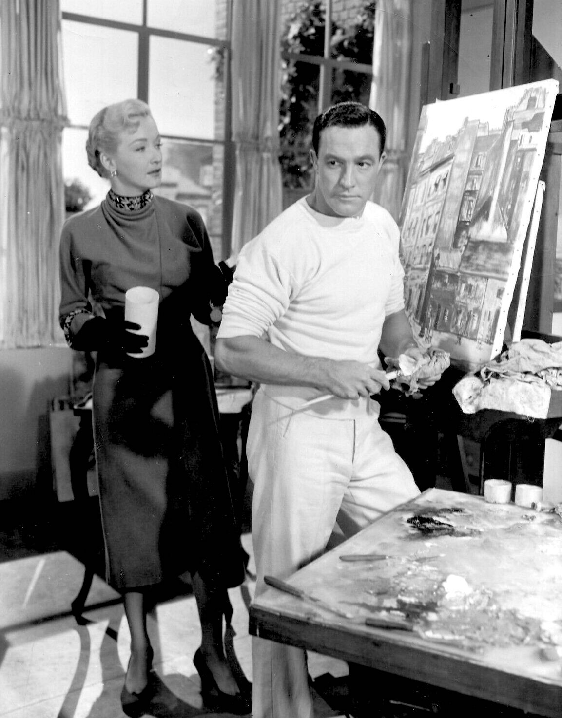 Nina Foch and Gene Kelley in An American in Paris, 1951